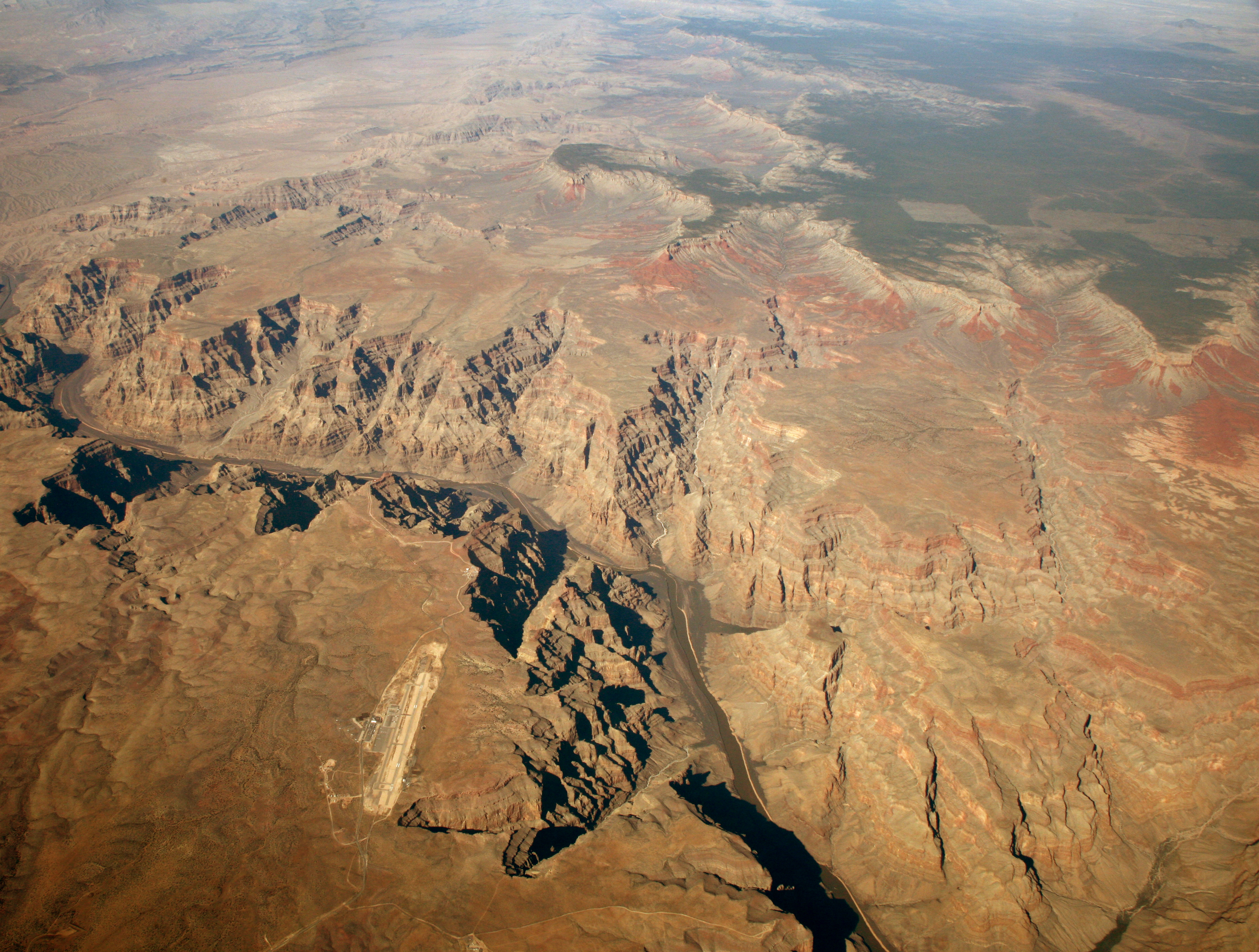 Grand Canyon West Airport , on the Hualapai Indian Reservation, on the south rim of the Grand Canyon.